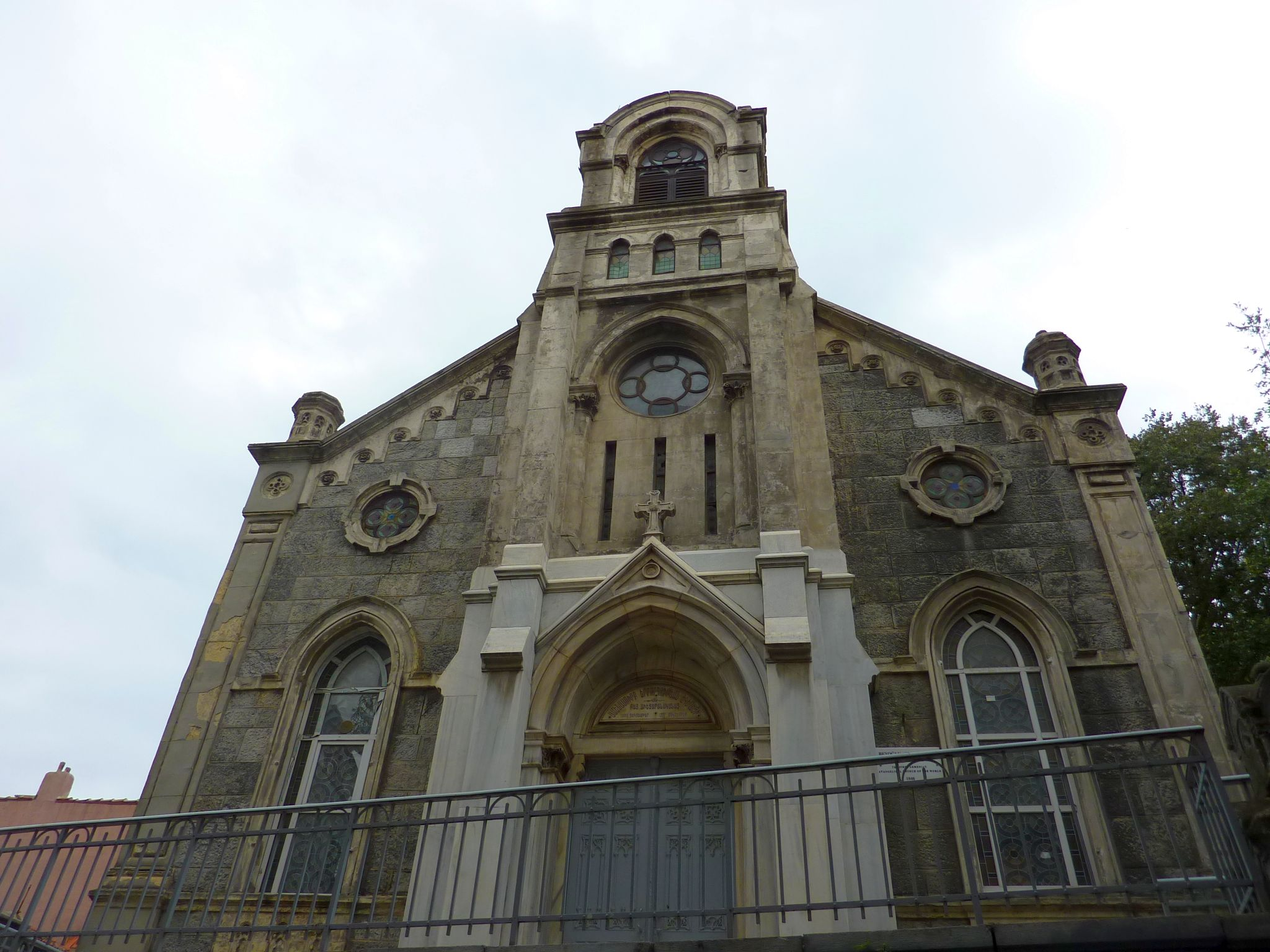 Armenian Evangelical Church, Istanbul